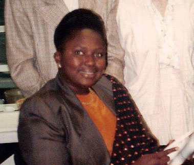 Aminata Cissé Niang (UNICEF, New York)